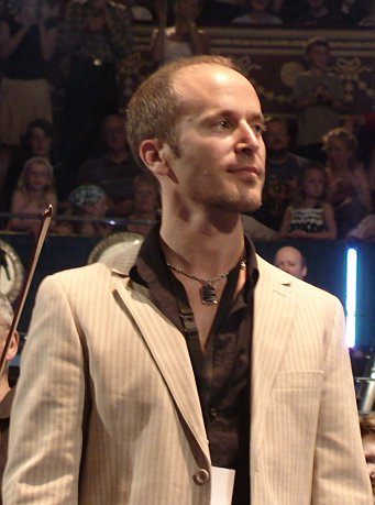 Murray Gold at the Doctor Who Prom (Prom 13 of the BBC Proms 2008) at the Royal Albert Hall, London.